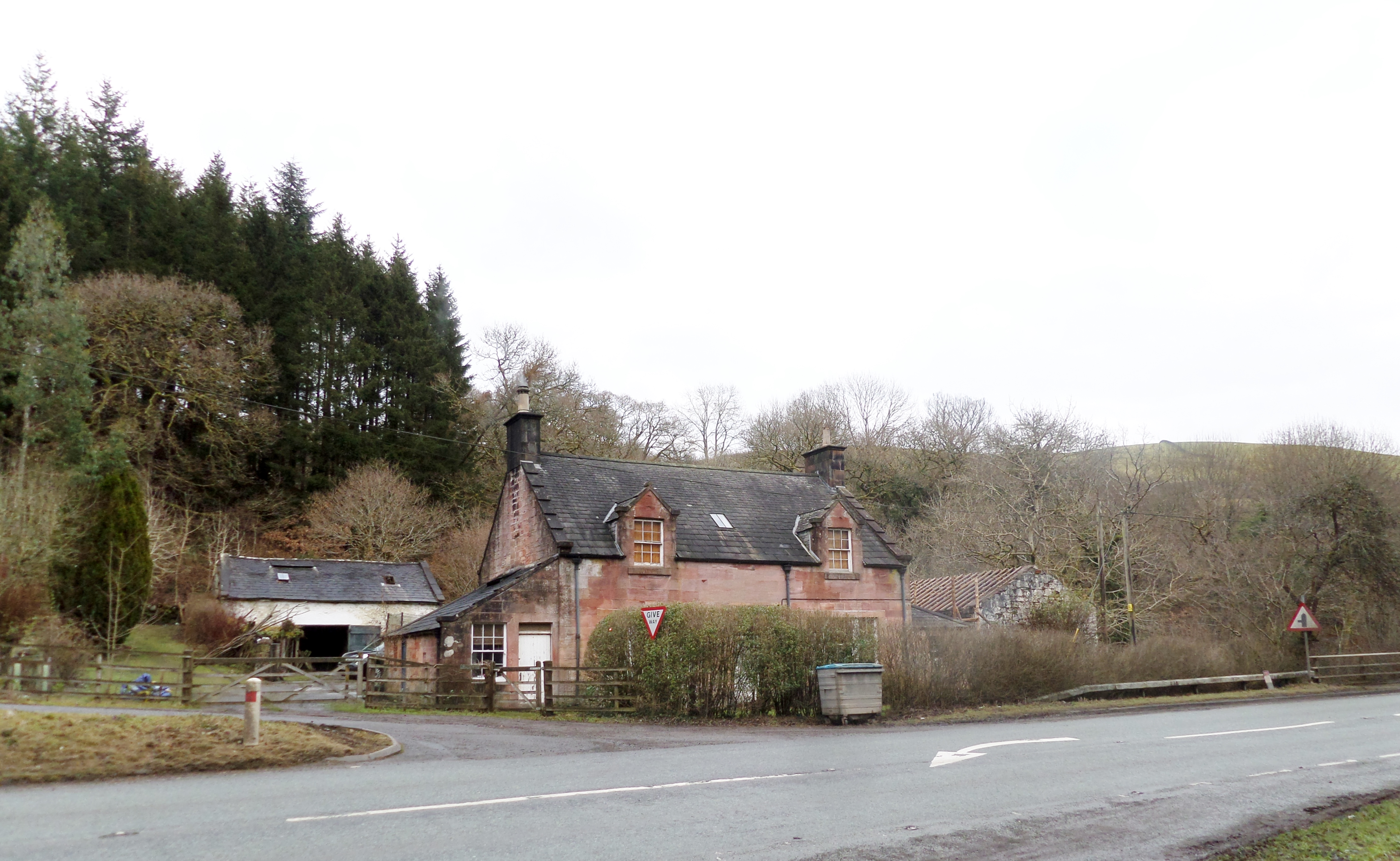 Enterkinfoot Mill, Enterkinfoot, Nithsdale - the old miller's house & site of the original mill.